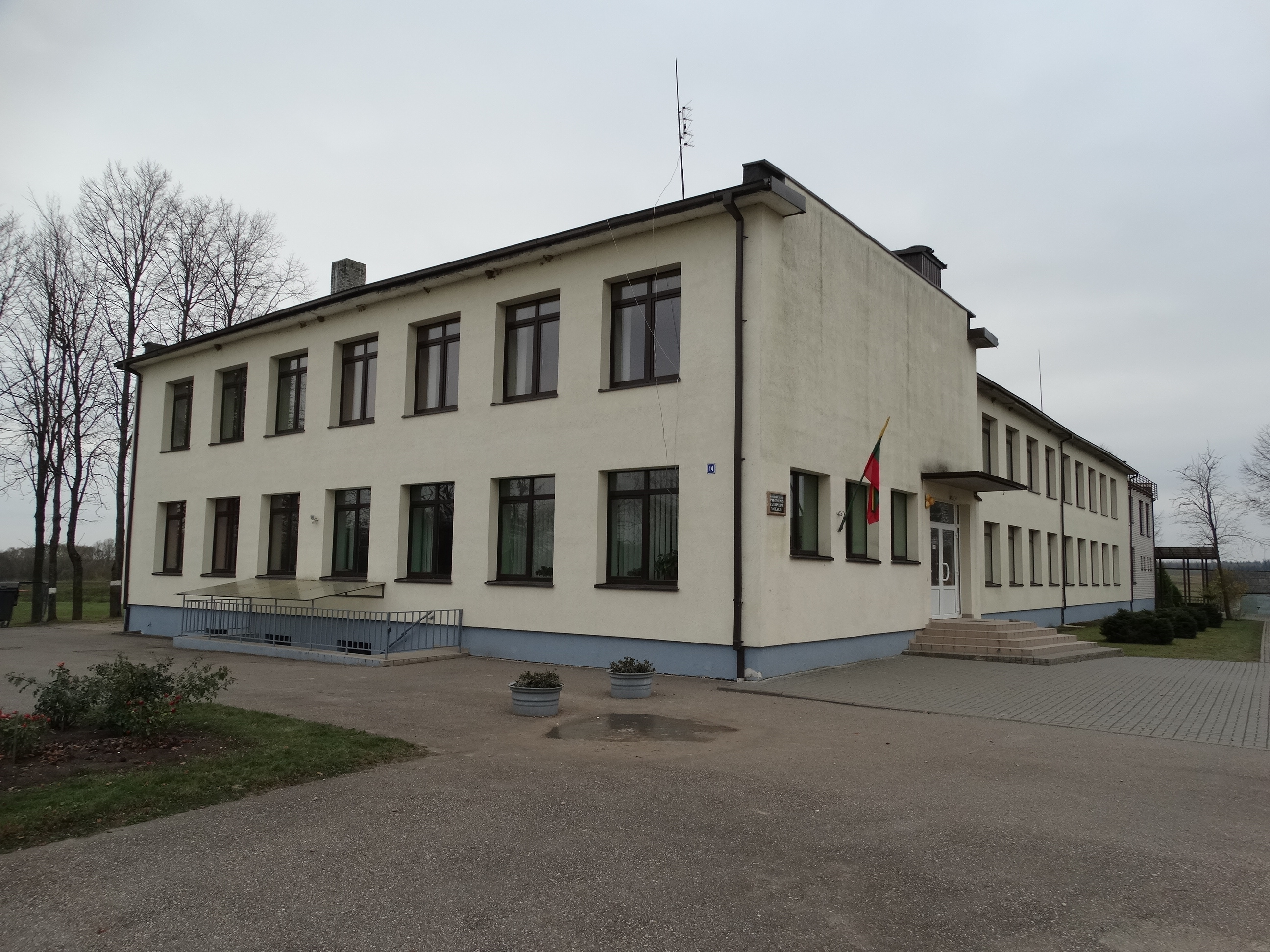 School, Palomenė, Kaišiadorys district, Lithuania